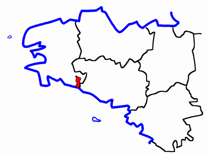 Map for localisazion of cantons of Bretagne region in France